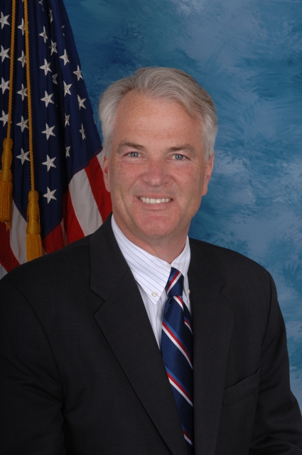 Michael McMahon, member of the United States House of Representatives